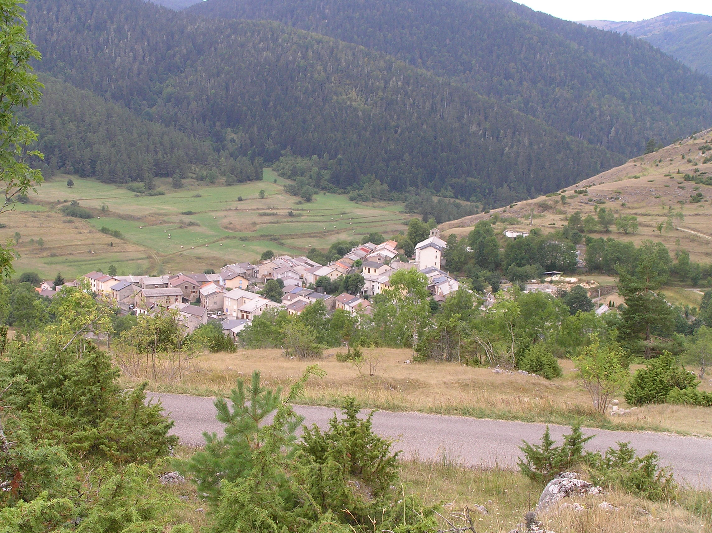 Overview over Comus, Aude, France